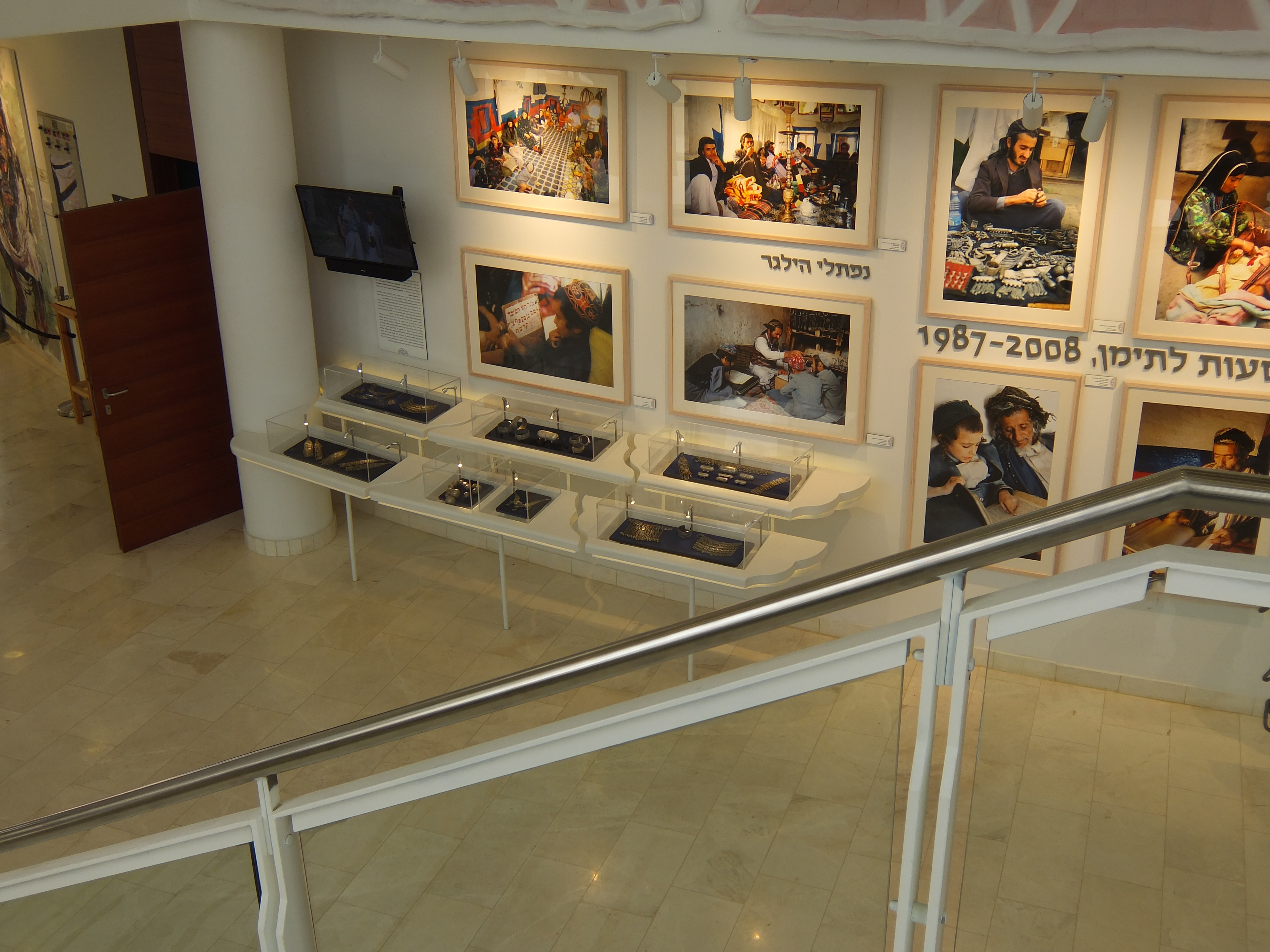 Yemenite Jewish Heritage Center in Rehovot